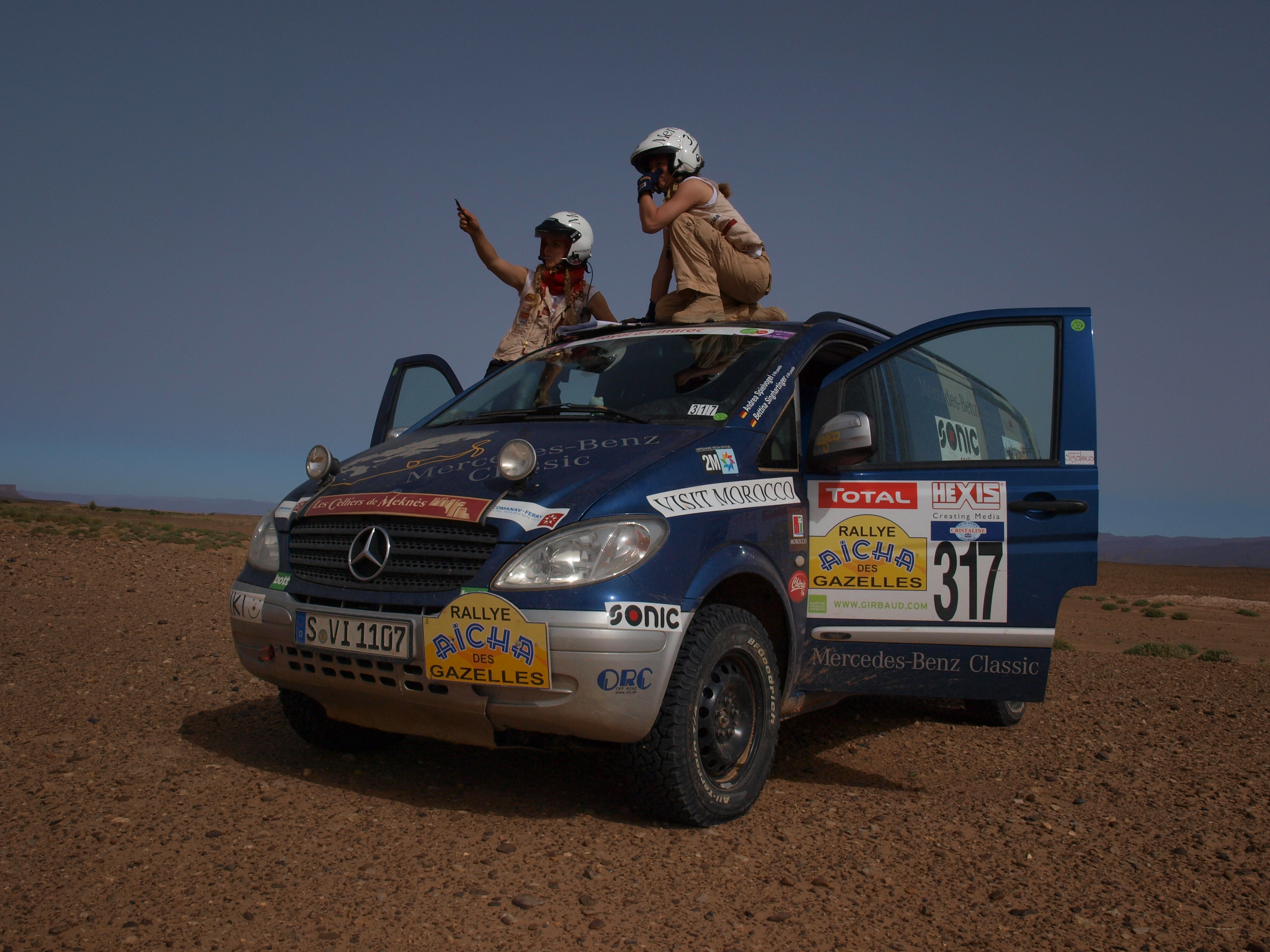 2010 Team 317 searching the next Checkpoint